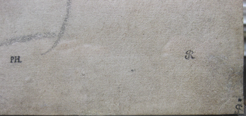 Detail of the drawing of Isabella Brant by Peter Paul Rubens showing the three collector marks on the bottom right corner.